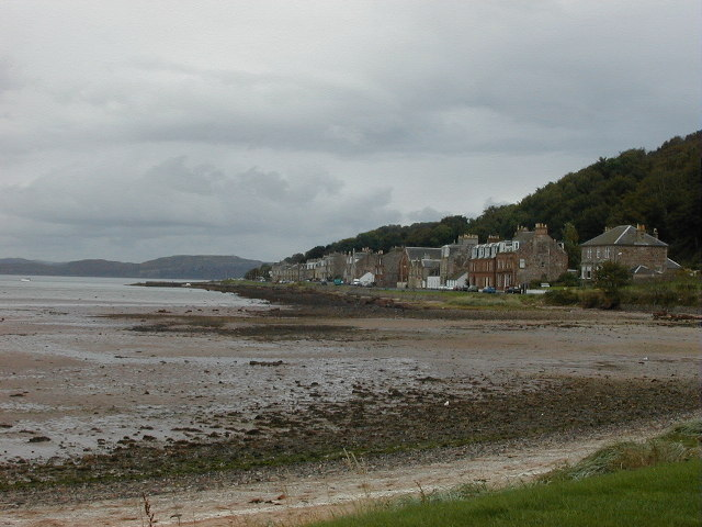 Kilchattan, Bute. In Kilchattan village there is a Post Office & General store which is open every morning from 9.30am (10.30 Sunday’s) you can also buy newspapers and everyday items there.